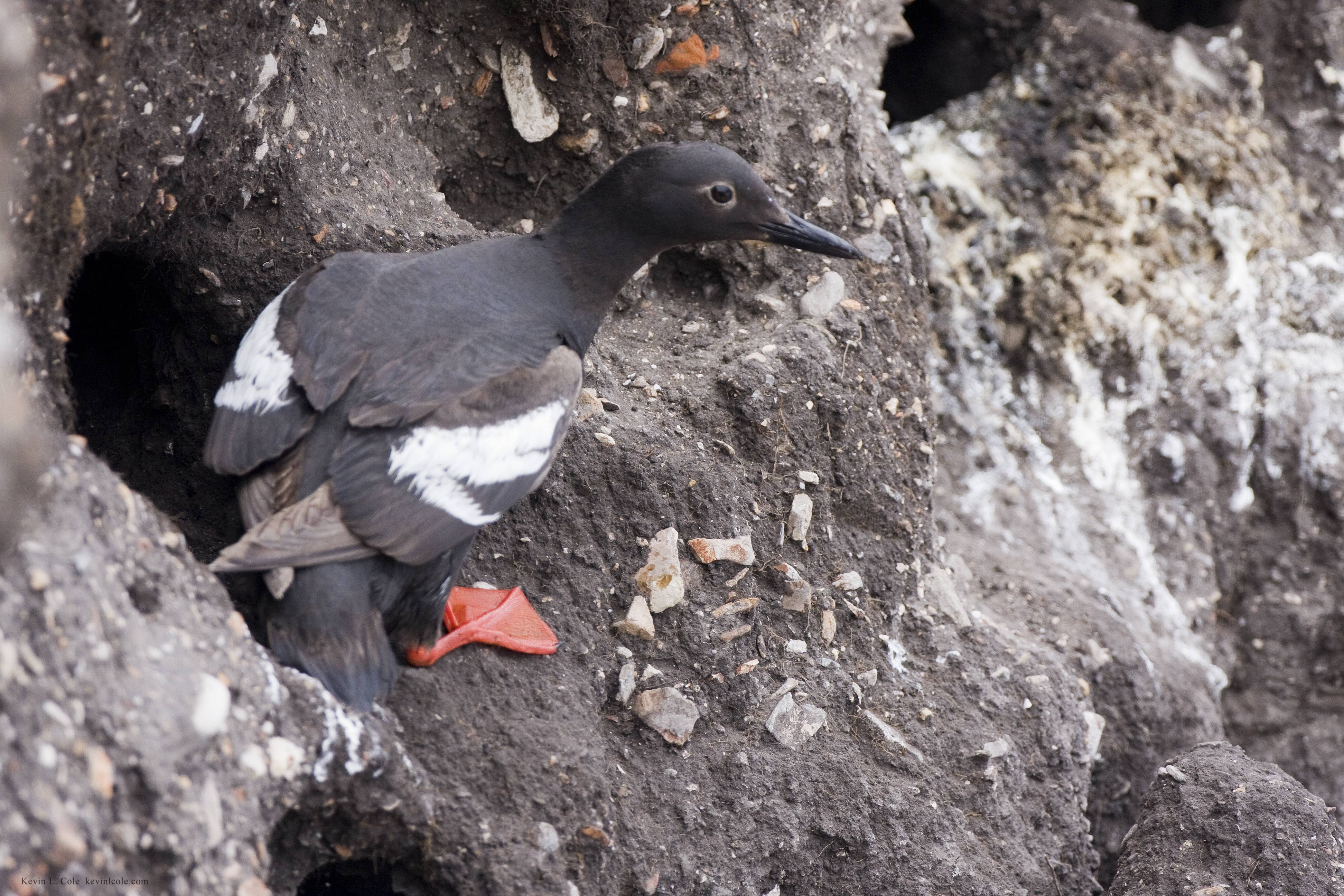 Pigeon Guillemot (Cepphus columba) feeding nestlings on cliff side on the Bluff Trail. The hole the bird is emerging from is its nest. 40D+500mm f/4L at 30 feet with strong winds on bluffs edge.